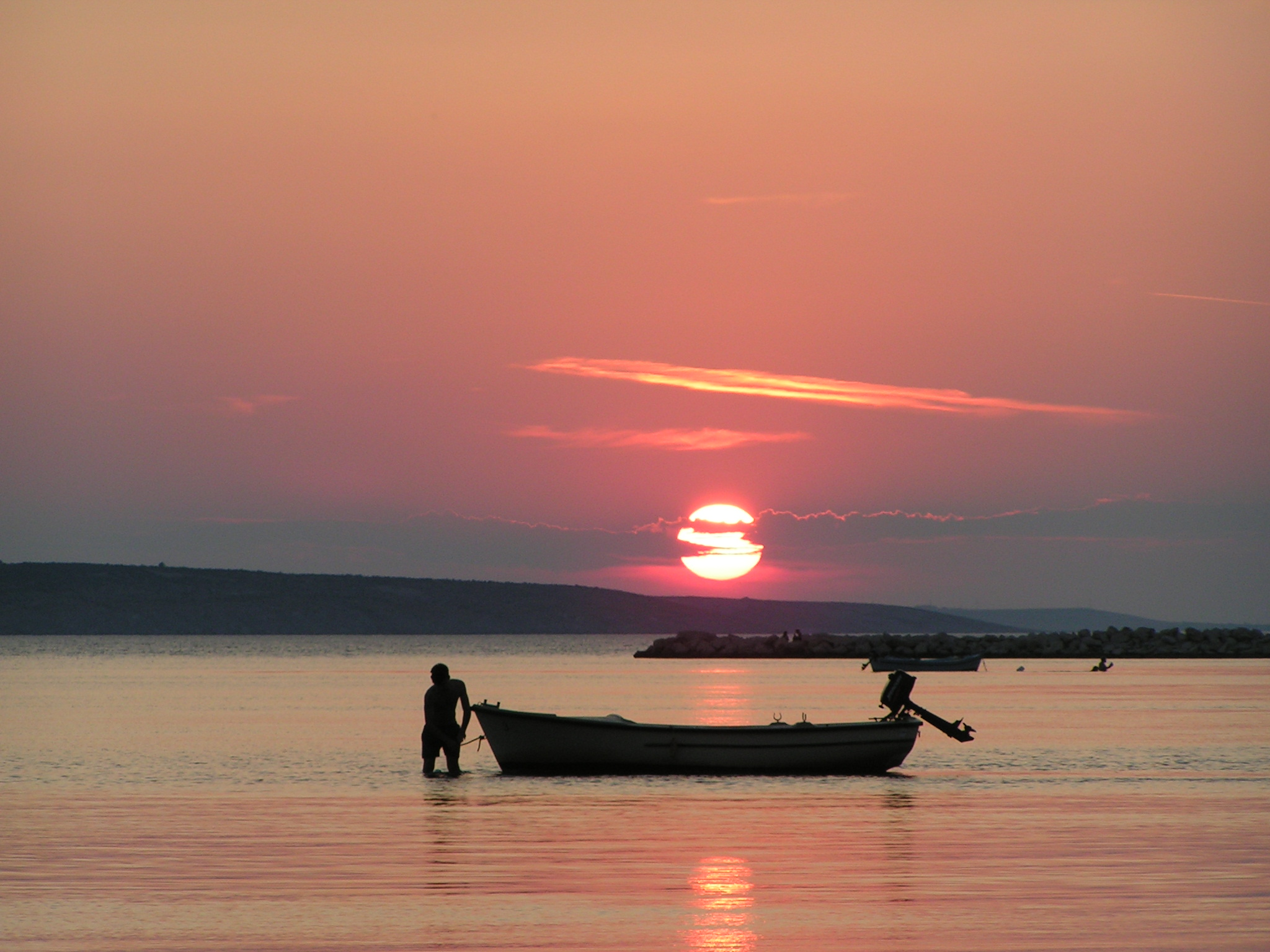 Sunset Ljubač.